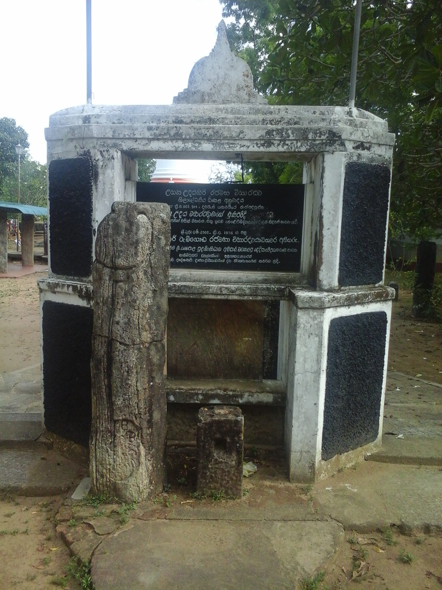 Udayagiri Rajamaha Vihara - Stone Inscription